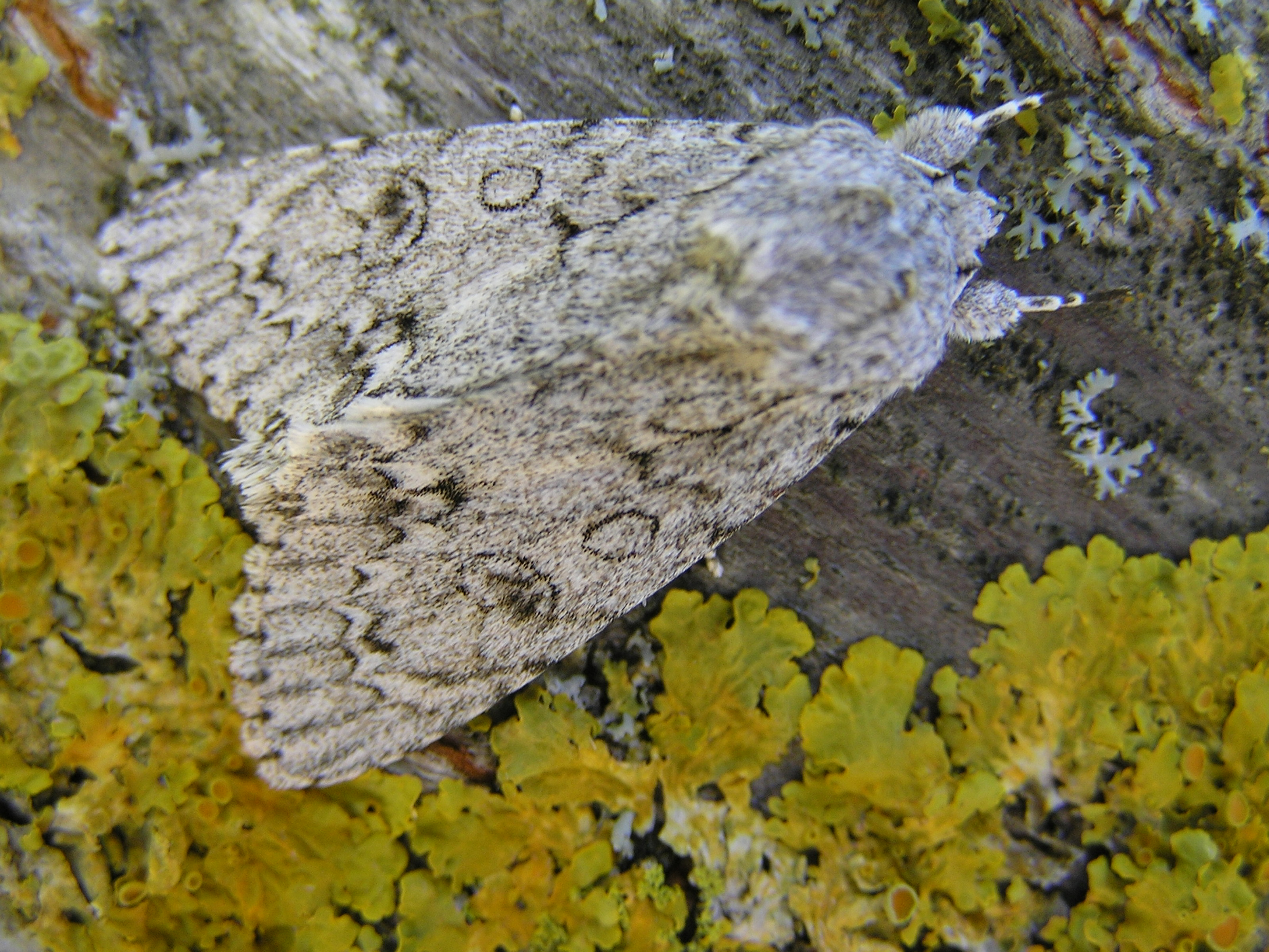 Acronicta aceris (Linnaeus, 1758). Picture taken in Saint-Félix-de-l'Héras, France.